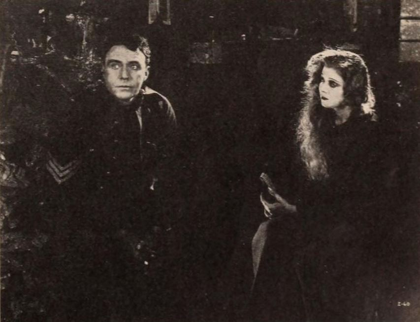 Still from the American film Isobel or The Trail's End (1920) with House Peters and Jane Novak, on page 97 of the December 4, 1920 Exhibitors Herald.